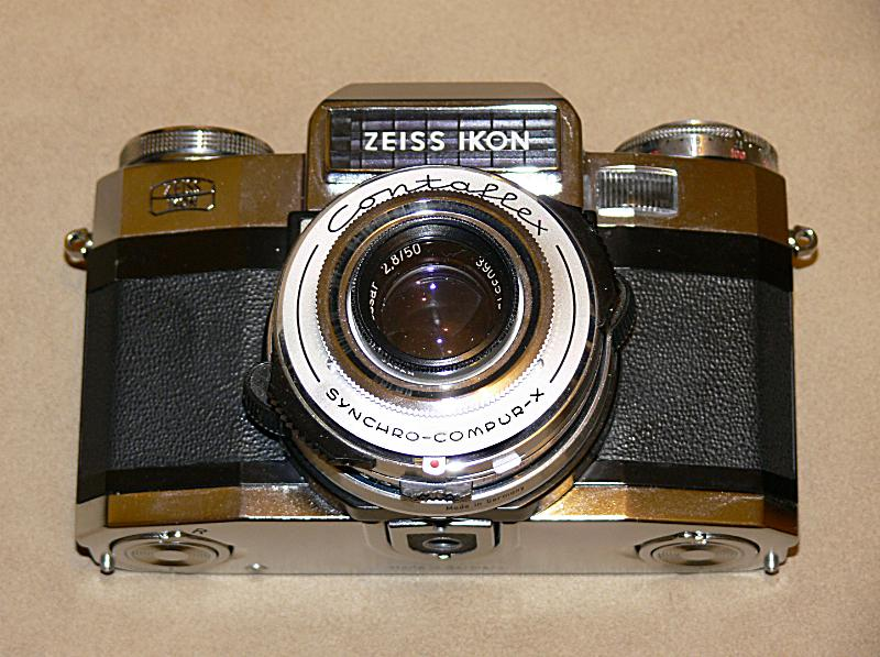 Zeiss Ikon Contaflex Super SLR with Synchro-Compur shutter and Tessar lens